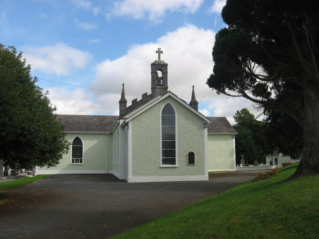 St. Catherine's Church, Ballapousta, Ardee T-plan church built 1831 on site of earlier thatched church of 1787. Situated in the townland of Drakestown.